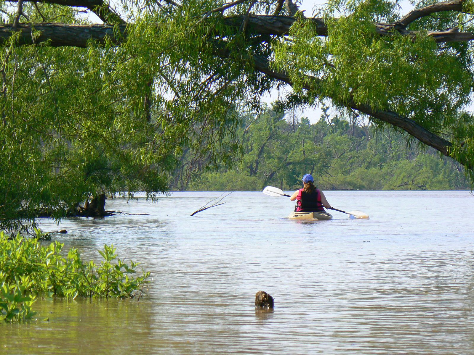 Our North Canadian River lot is just a few miles upriver from Eufaula Lake . Since the river looked a bit dangerous this weekend, we decided to paddle the lake instead. It was pretty interesting looking at all of the stuff that the flood pushed into the lake. We saw 3 large freezers, half a dozen old ice chests and countless empty oil bottles as we paddled along what used to be the shoreline.